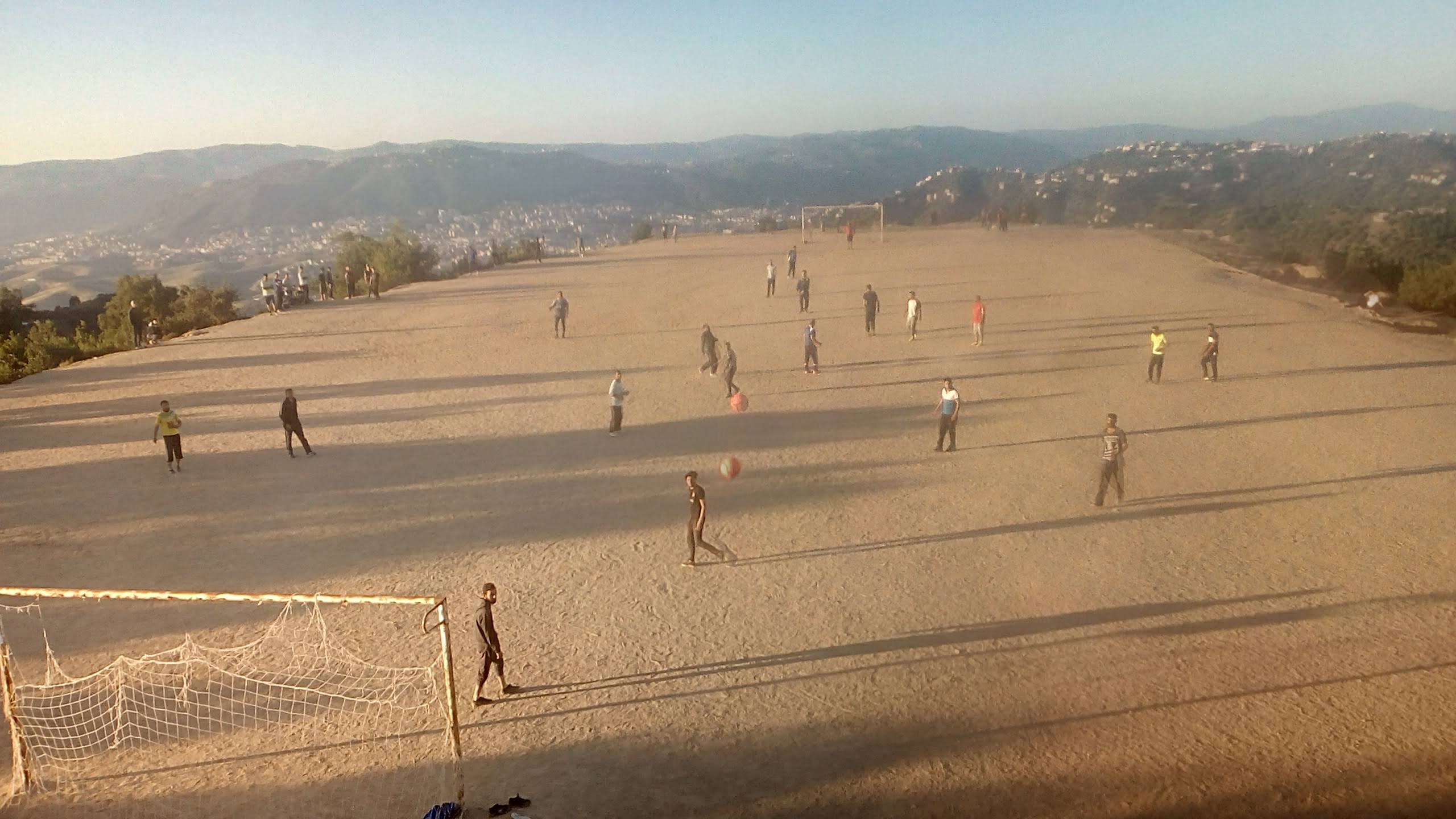 Mezdatta stadium un Amejjodh Imezdaten